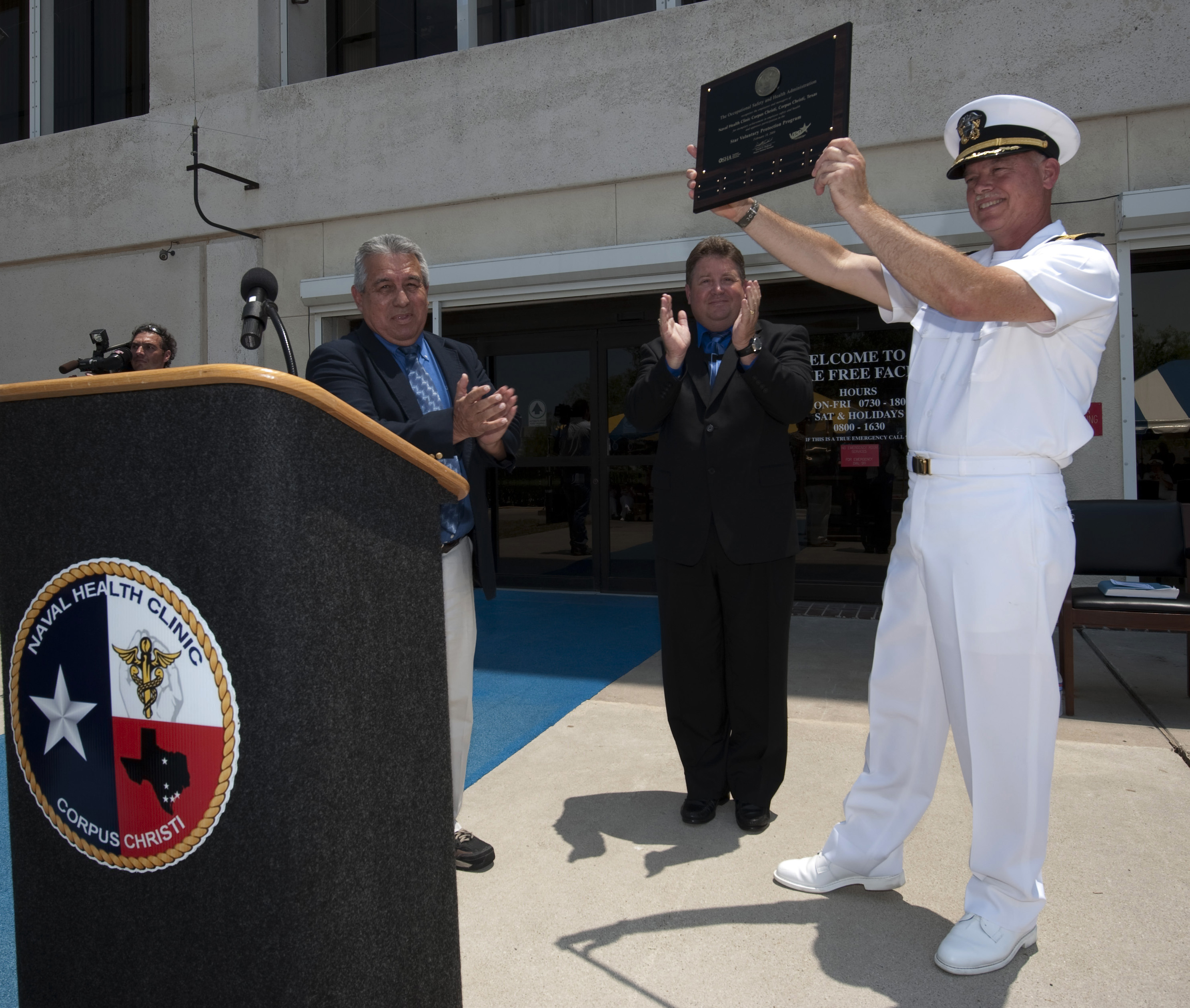 CORPUS CHRISTI, Texas (June 12, 2009) Capt. R. G. Kelley, commanding officer of Naval Health Clinic Corpus Christi (NHCCC), lifts the Occupational Safety and Health Administration Voluntary Protection Program Star Award during a presentation by OSHA representative Tony Fuentes, assistant director for the Corpus Christi area. NHCCC celebrated its milestone event June 12 after becoming the first Military Treatment Facility in the Department of Defense to receive the OSHA VPP Star Award for promoting effective worksite-based safety and health. (U.S. Navy photo by Bill W. Love/Released)